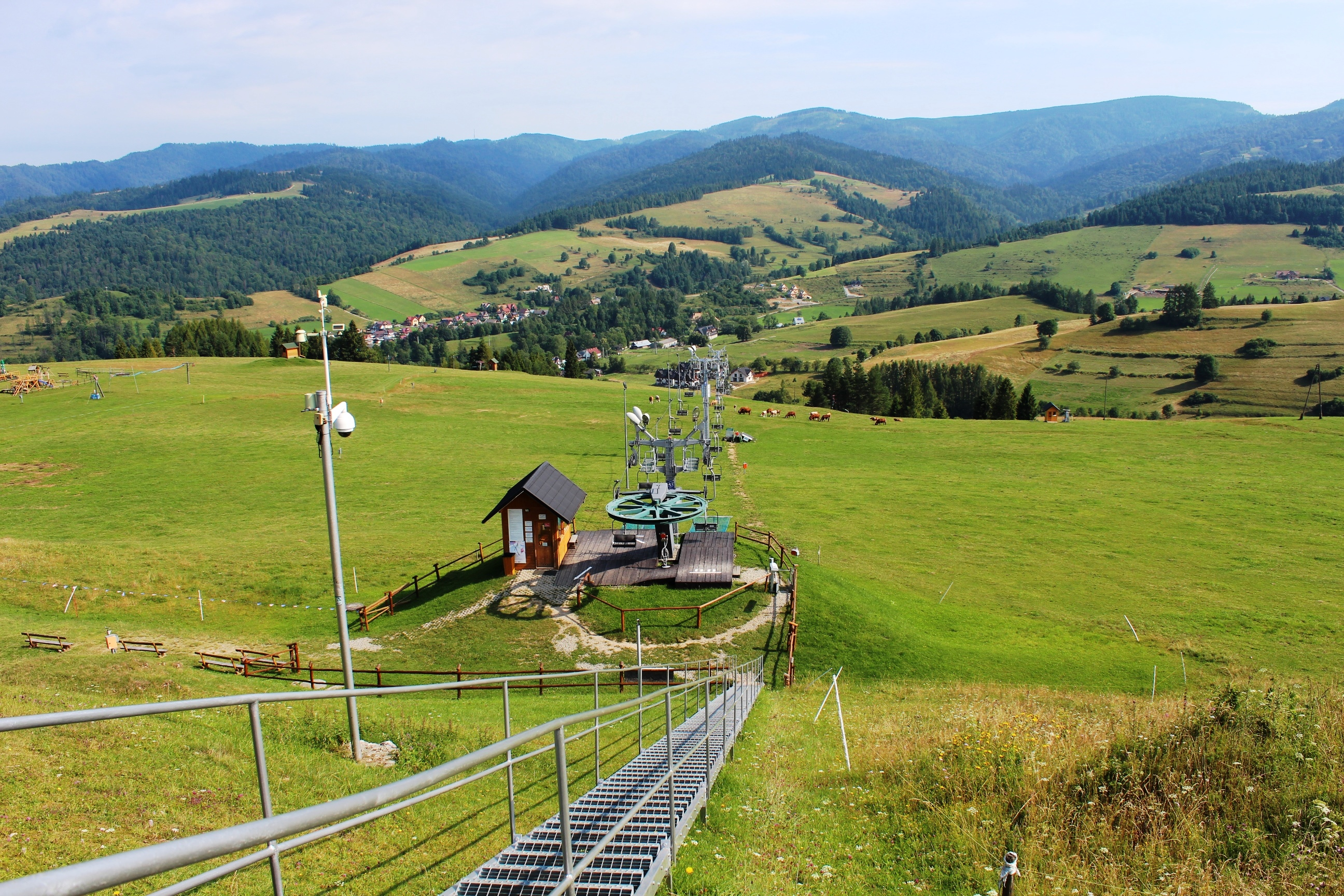 Jaworki-Homole Chairlift